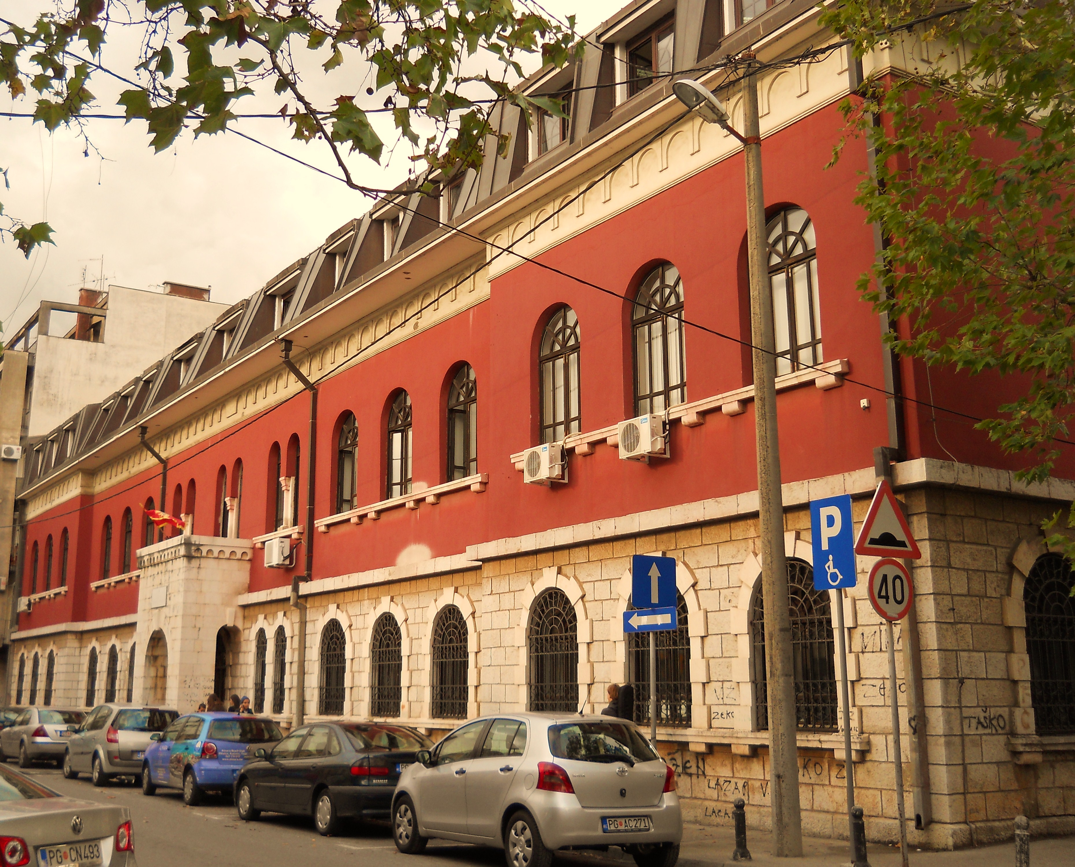 Music school, Podgorica